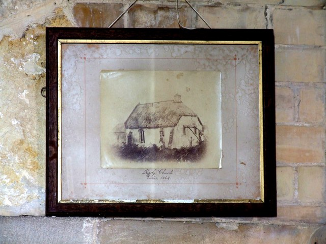 Interior of the Church of St James, Rigsby This picture, dated Easter 1863, shows a church built by the Rigsby family sometime prior to 1086. The earlier chalk walled and thatched roofed structure was supported by props. They also built a similar one at Tothby. The Rigsby church was converted to a chapelry in 1195 by Robert de Welle and given by Gilbert de Rigsby to the Gilbertine Priory of St Katherine at Lincoln, to which it belonged for over 300 years. The present church was built when the earlier church was photographed, in 1863.